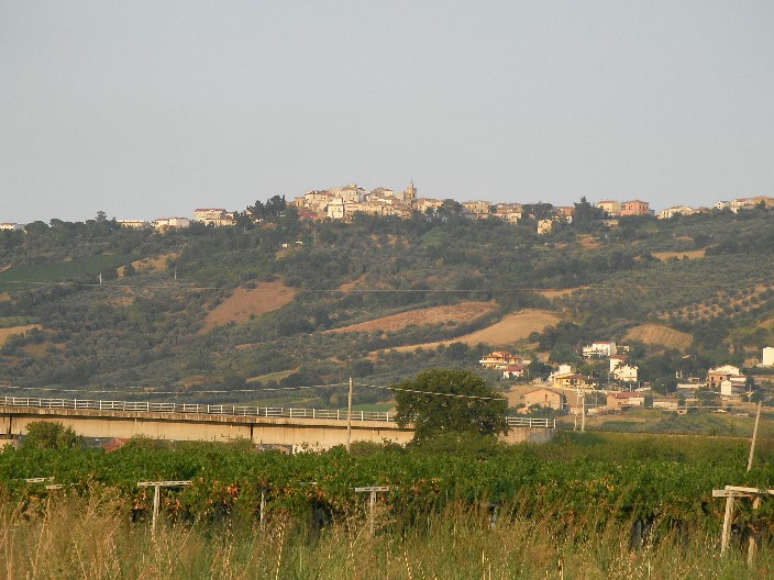 Paglieta